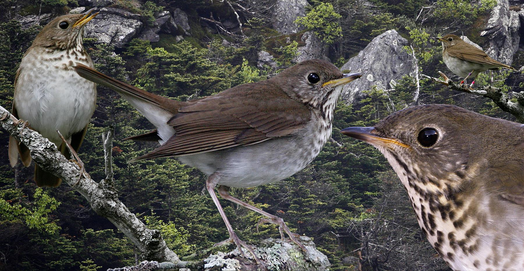 Bicknells Thrush From The Crossley ID Guide Eastern Birds